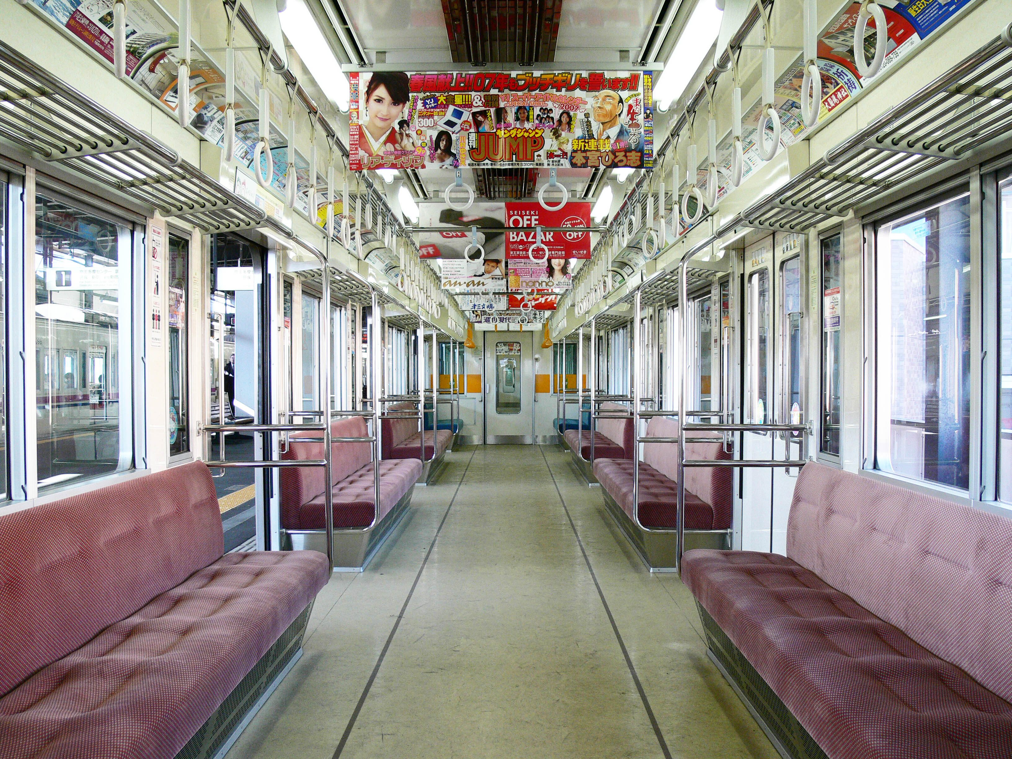 Keio railway series"8000"inside.